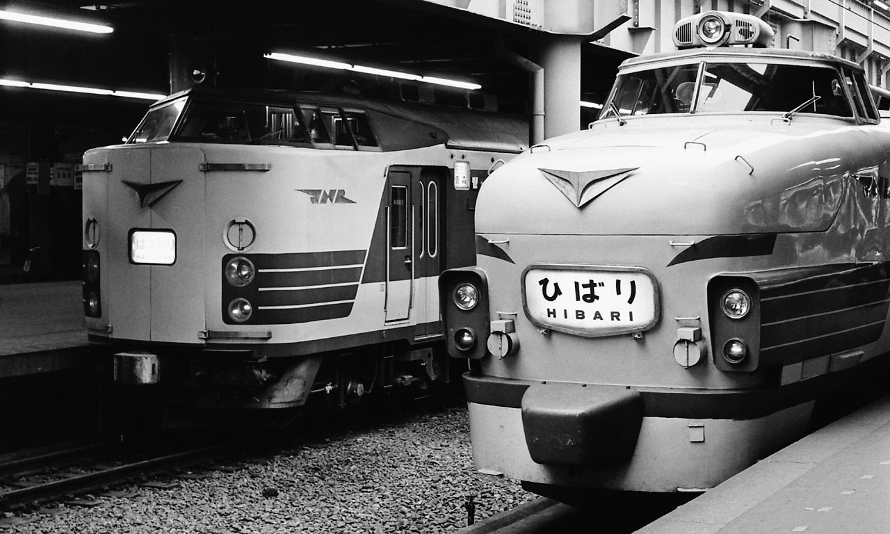 JNR 583 series (left) and 485 series (right) EMUs at Ueno Station in Tokyo on Hatsukari and Hibari services